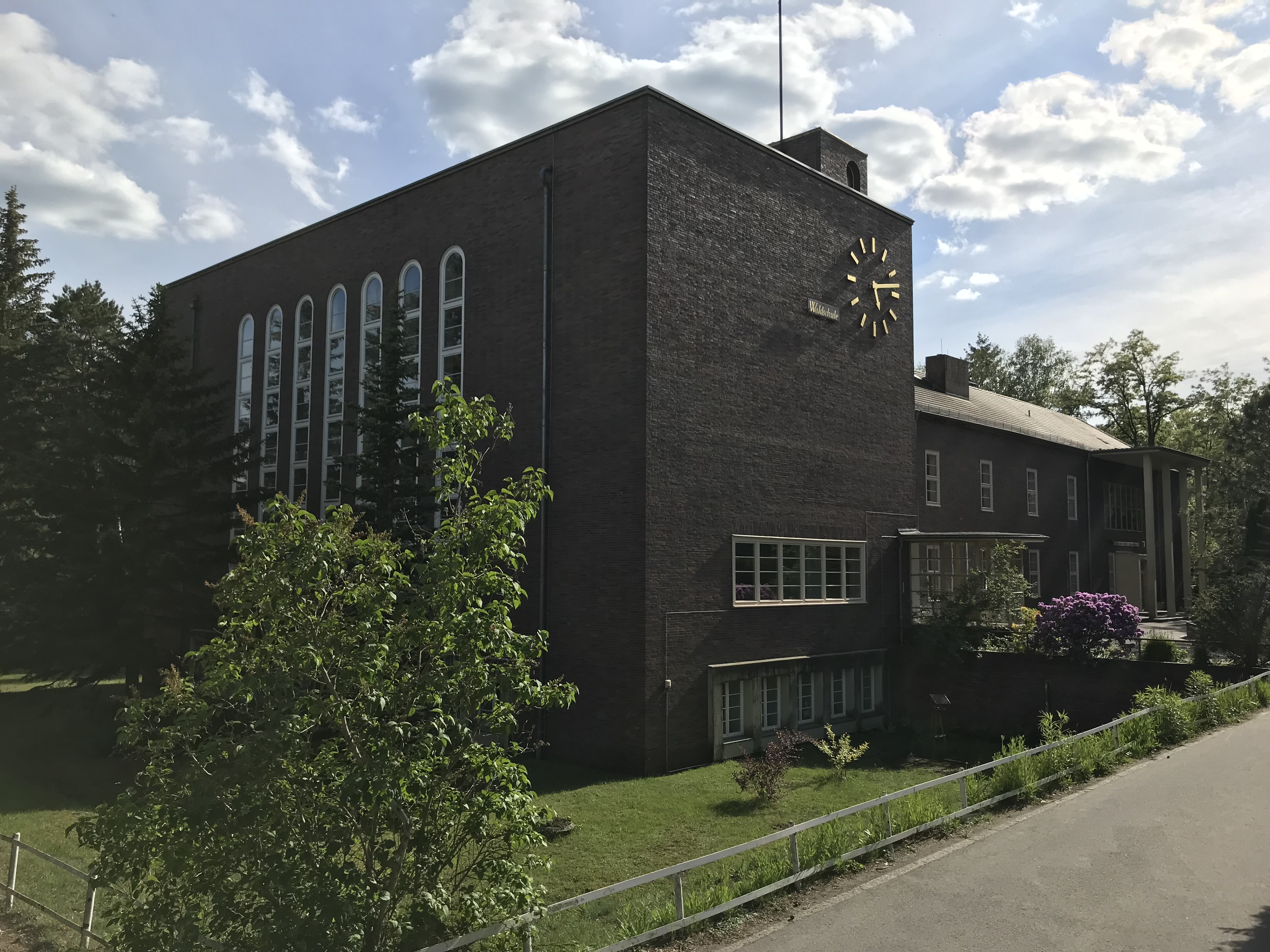 Waldschule, Lauchhammer-Ost, Germany